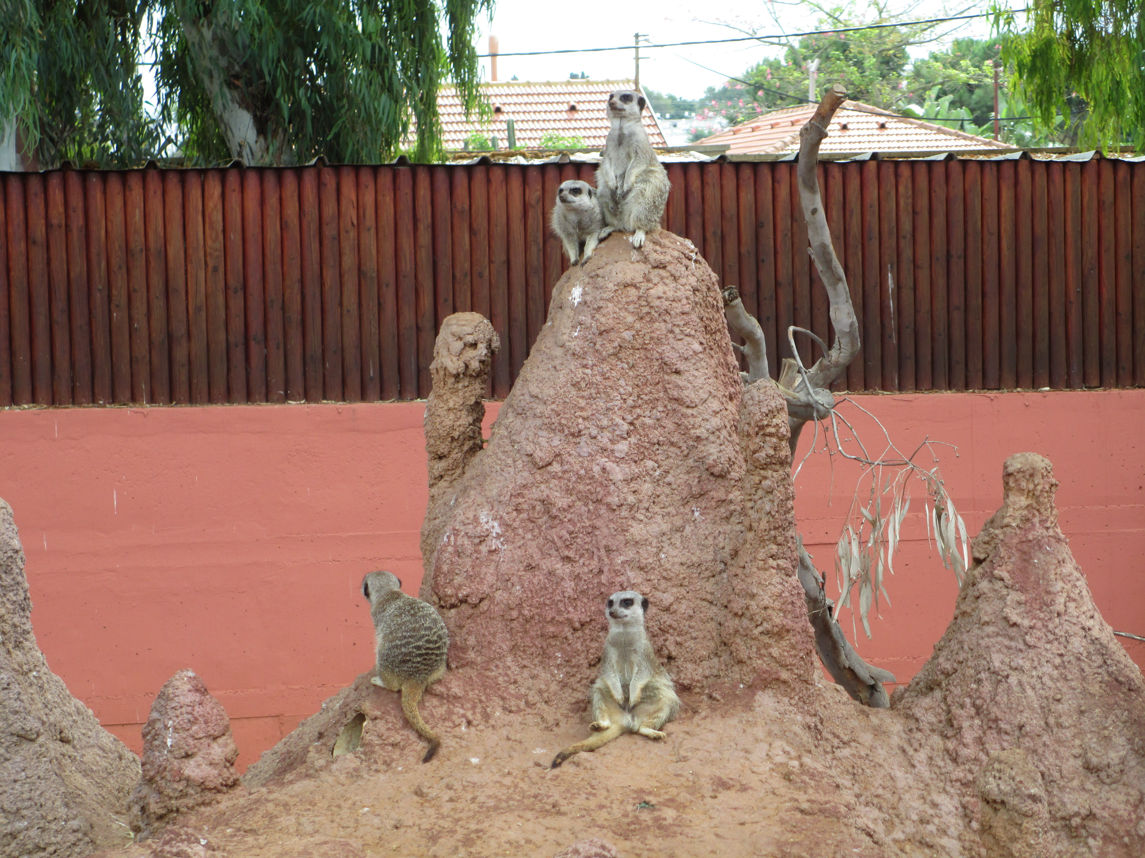 Suricata in Zoo-Botanical Garden Nahariya